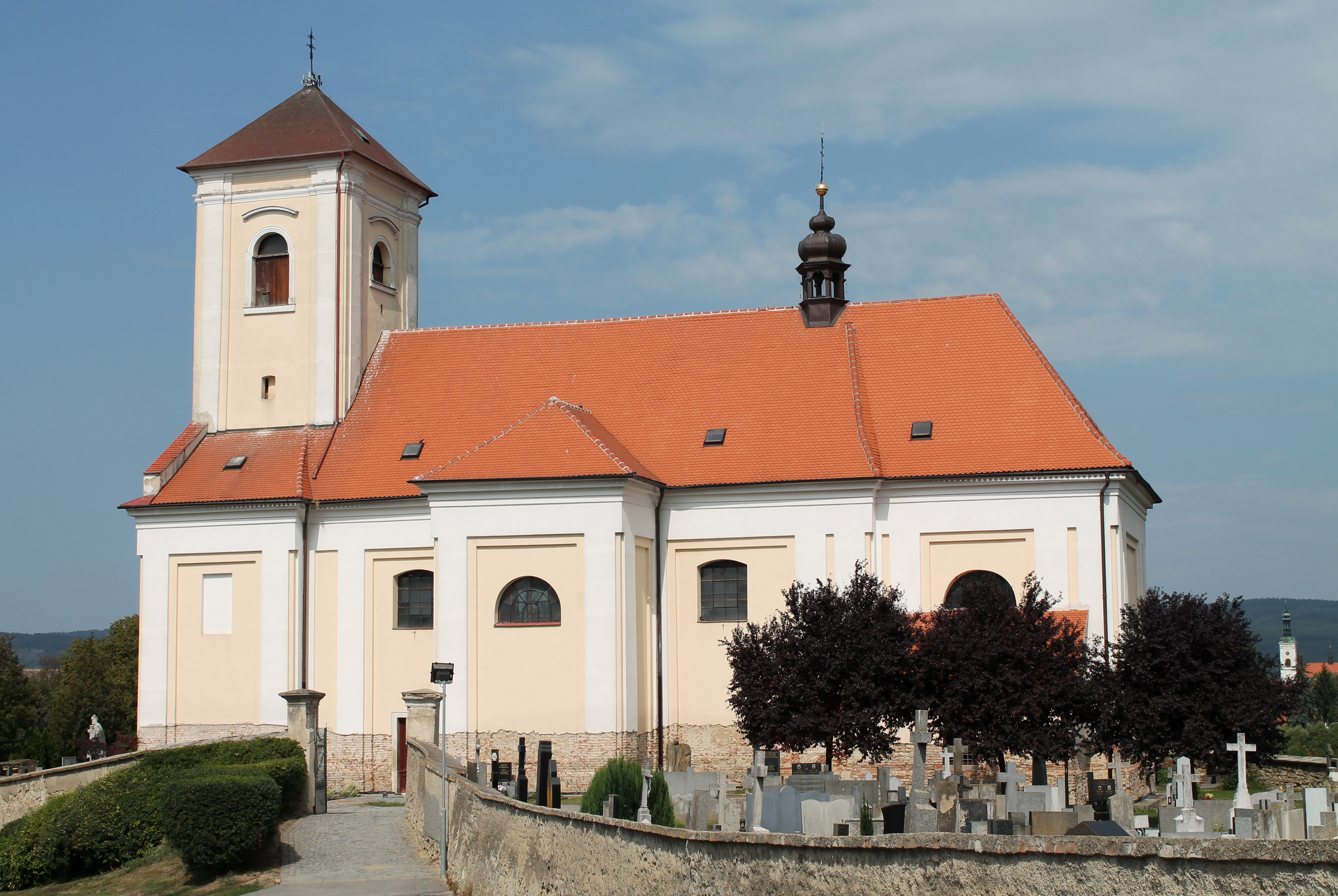 Church of Saint Wenceslaus, Rousínovec, Rousínov, Vyškov District, Czech Republic